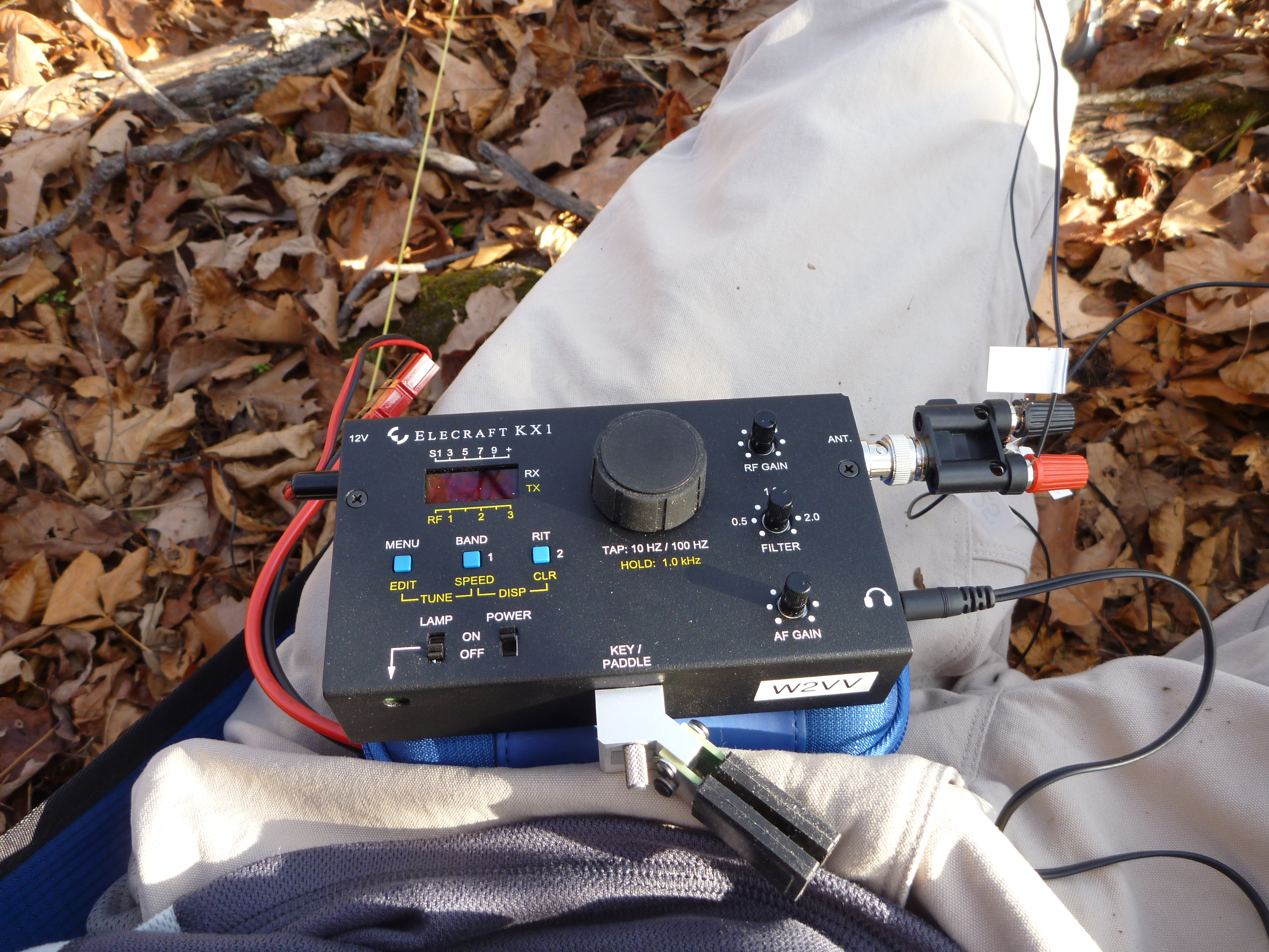 Elecraft KX1, random wire